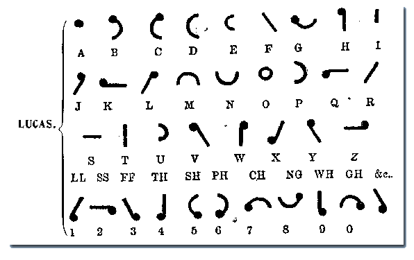 Lucas Type was a British tactile alphabet system introduced by Thomas Lucas in 1838 used to teach blind children to read. Lucas's system was a sort of stenographic shorthand. The letters were altogether arbitrarily chosen, and consisted of lines with or without a dot at one end. It was never very extensively used, and in it little effort was made to retain the form of the roman letter.